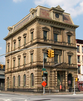 Looking northeast across Bedford Avenue and Broadway at Williamsburg Art & Historical Center, New York City, formerly the Kings County Savings Bank